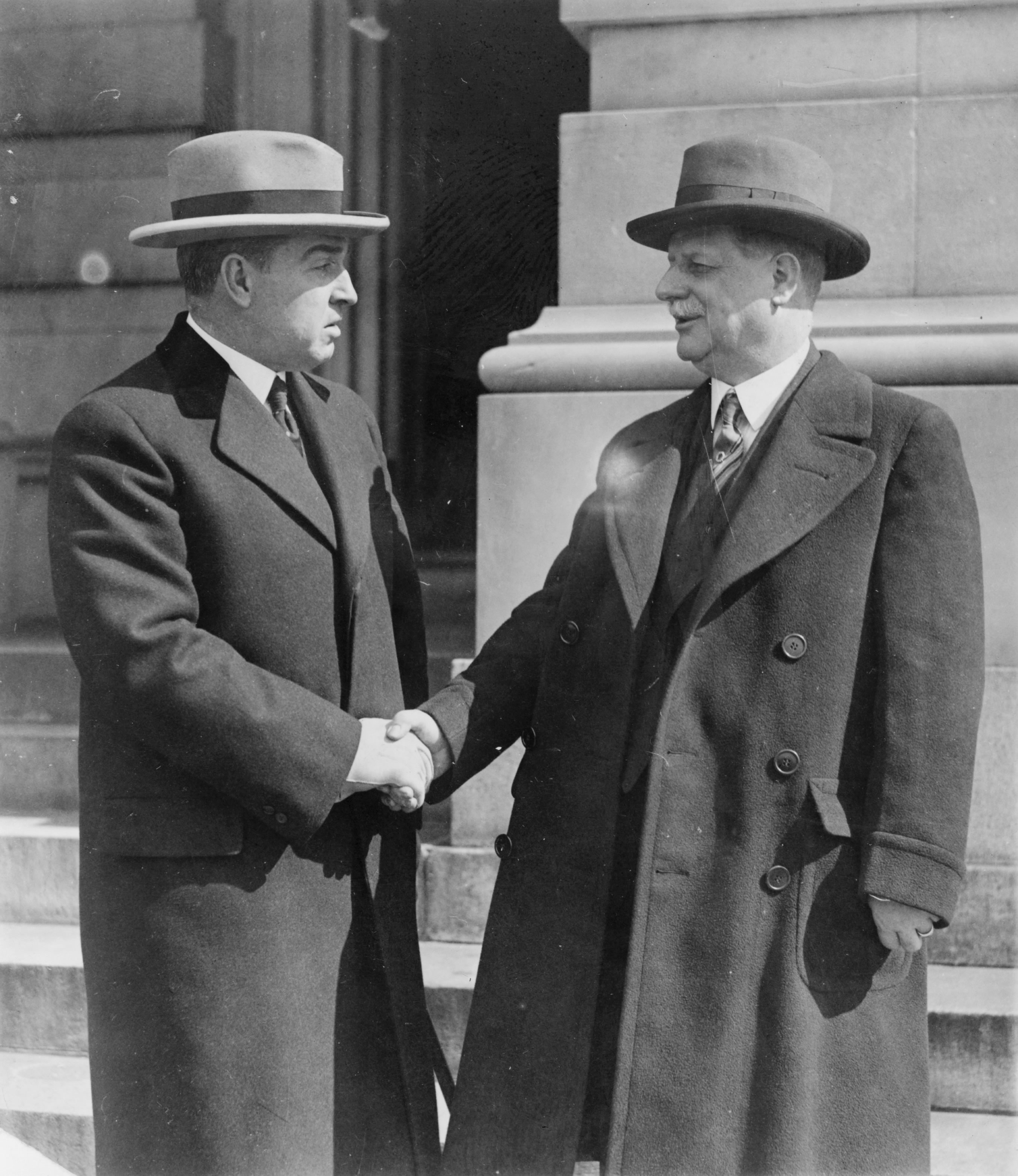 Defeated Maryland Congressman John Hill (left) shaking hands with colleague John Linthicum (right). Linthicum was succeeding Hill as "wet" leader.